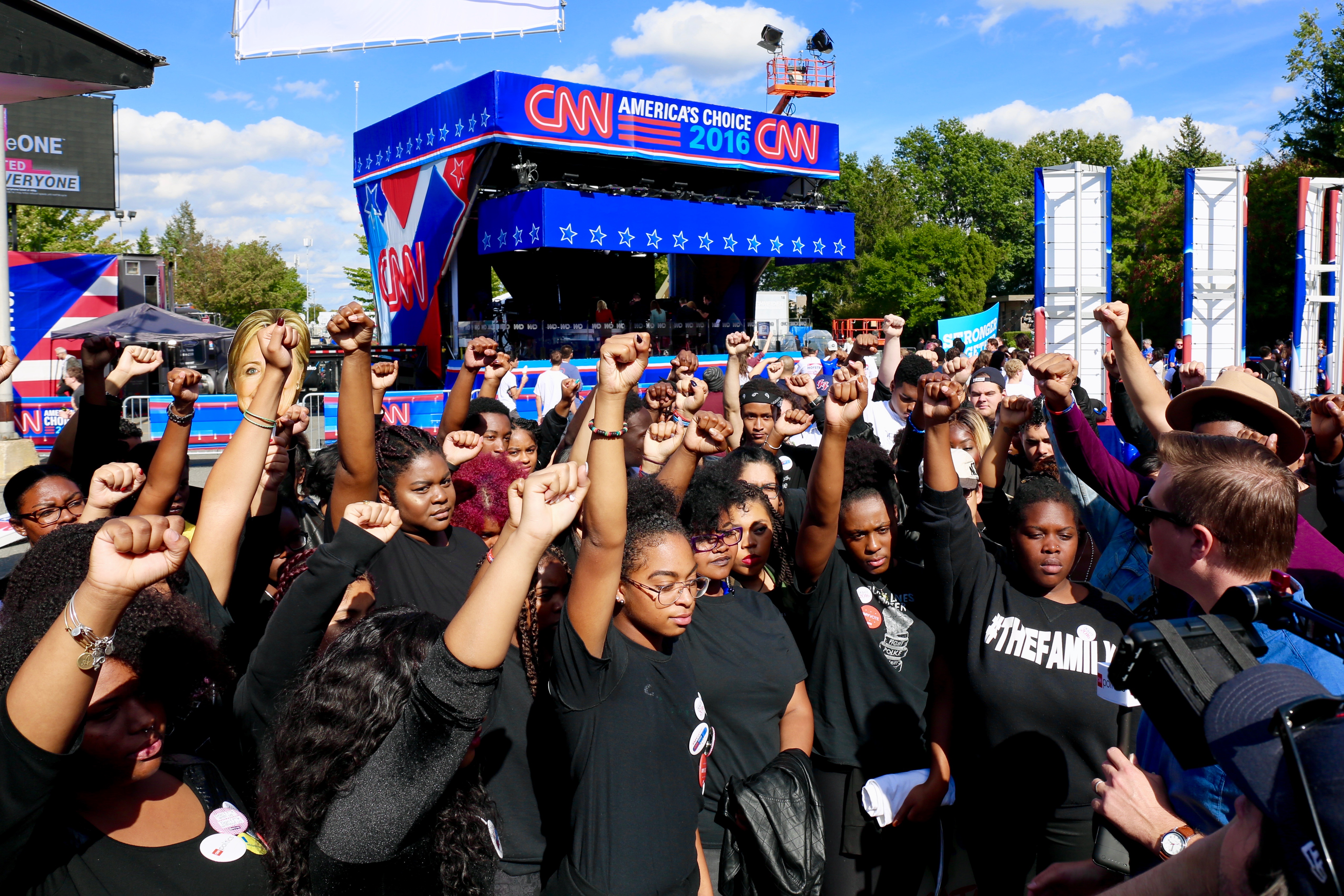 Members of the Black Lives Matter protest movement speak with reporters on the Hofstra University campus ahead of Monday night's first presidential debate.